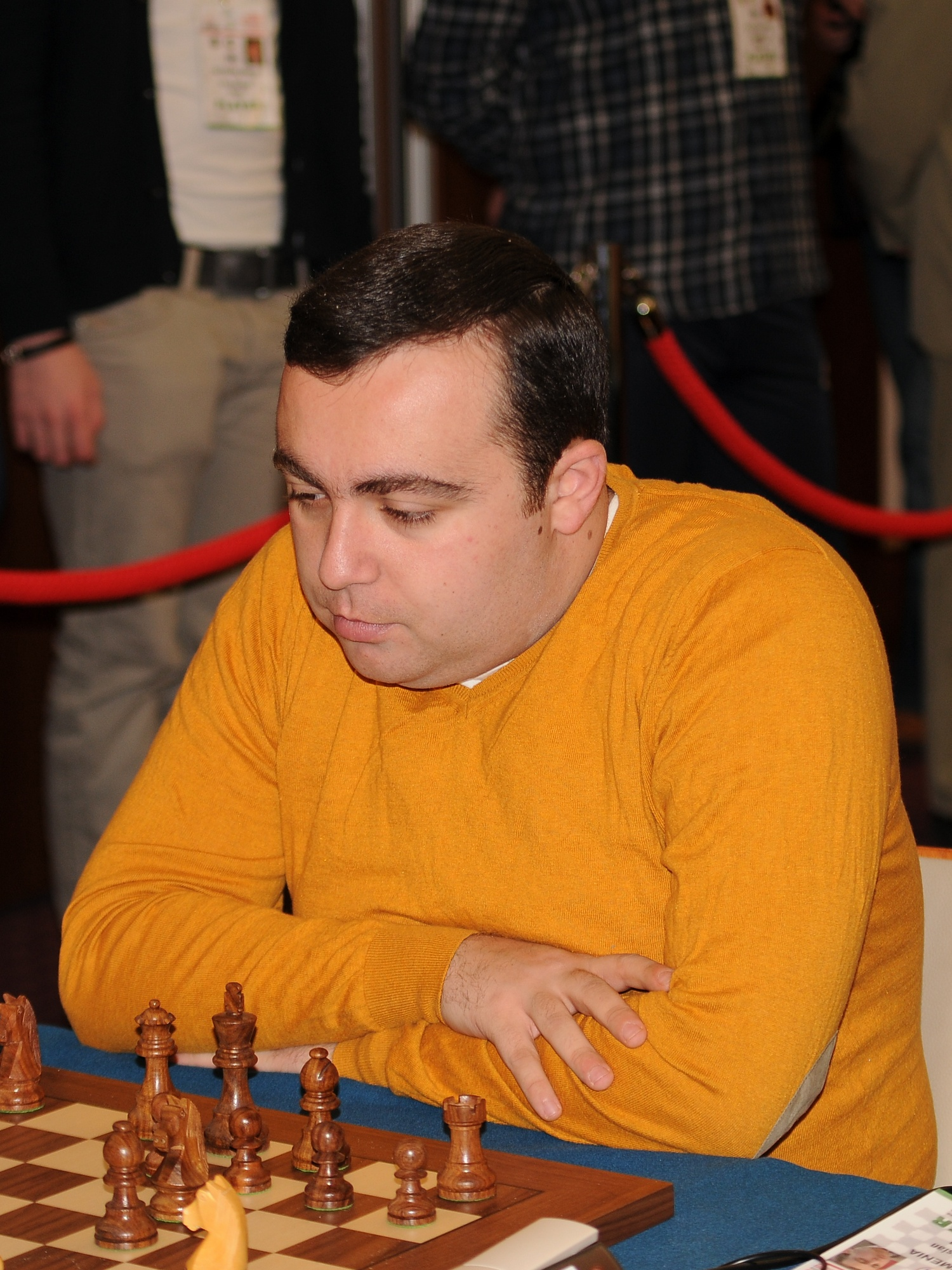 GM Tigran L. Petrosian, European Chess Team Championship Warsaw 2013